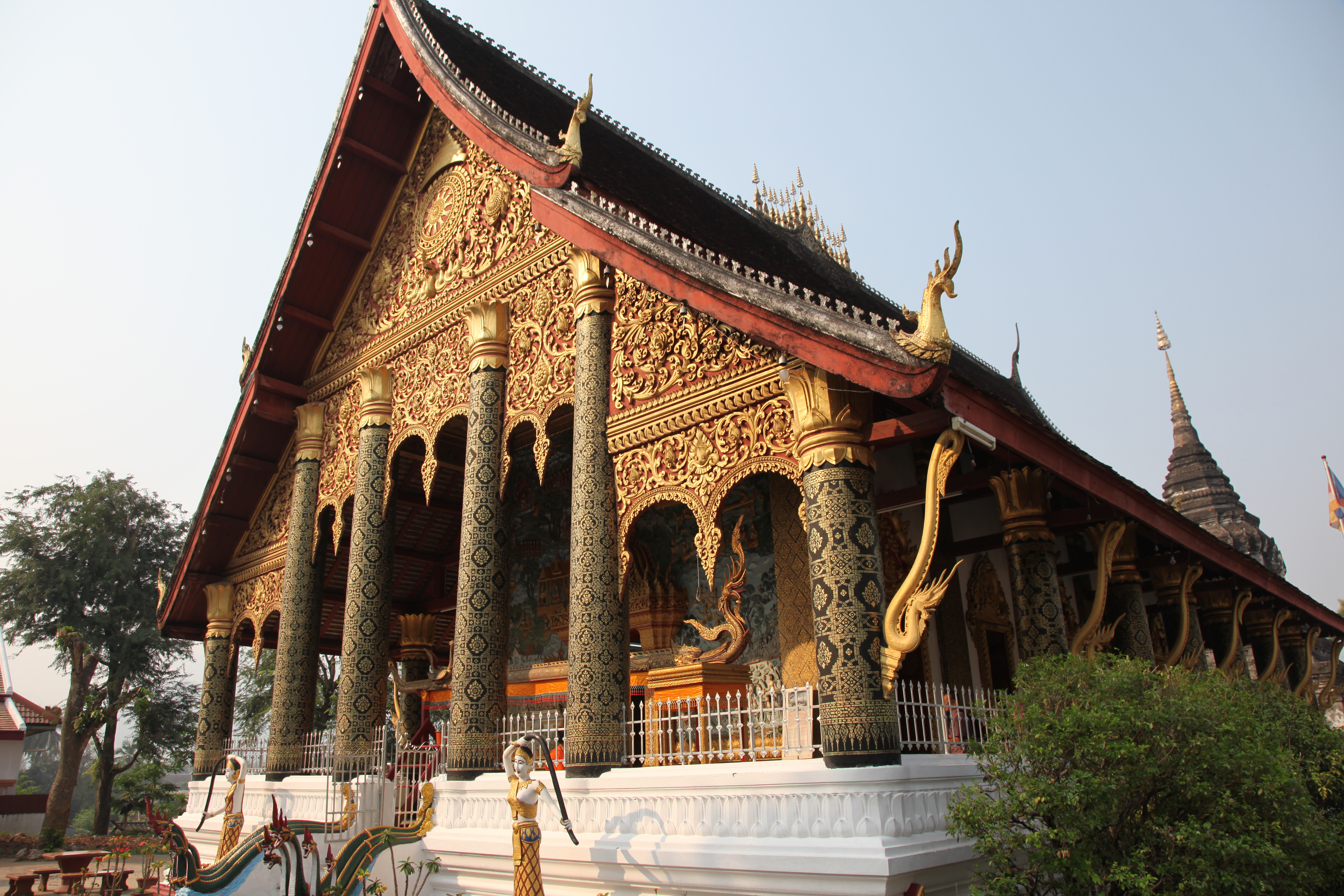 Wat Mahathat - sim